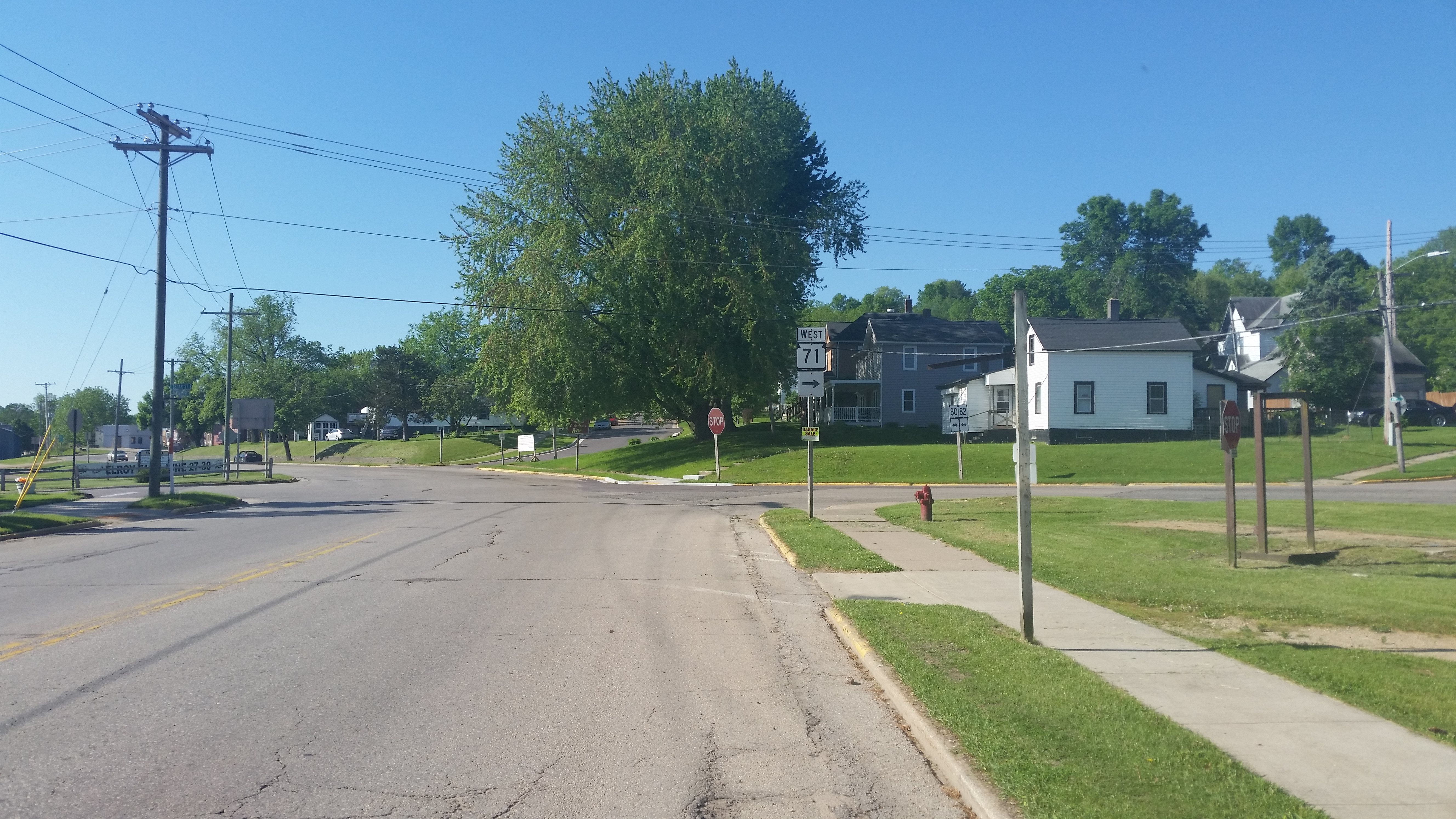 This is the intersection of WIS 71 & WIS 80 in Elroy, WI.